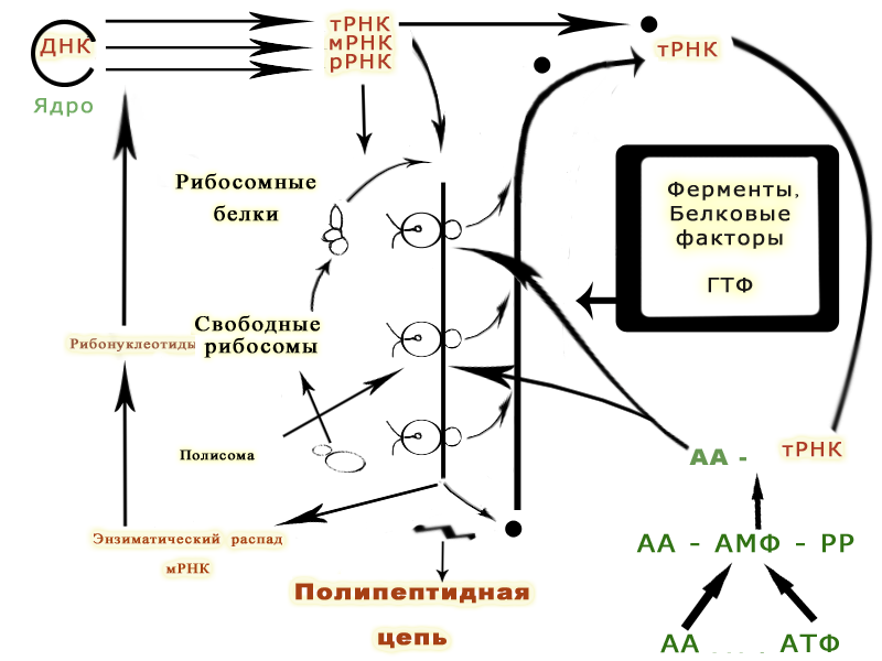 The role of different types of RNA in the synthesis of protein. (by Watson). Annotations are in Russian